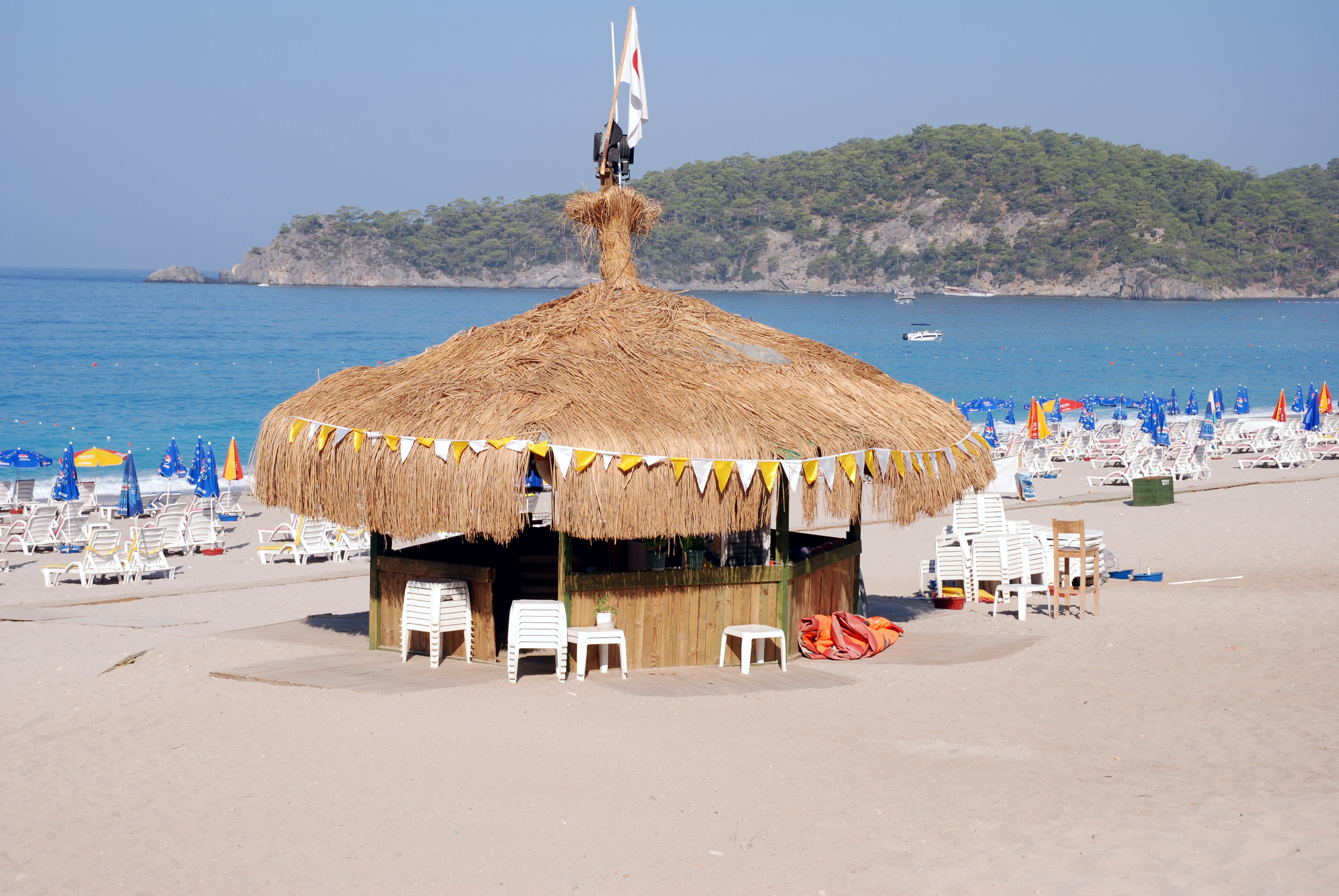 beach bar